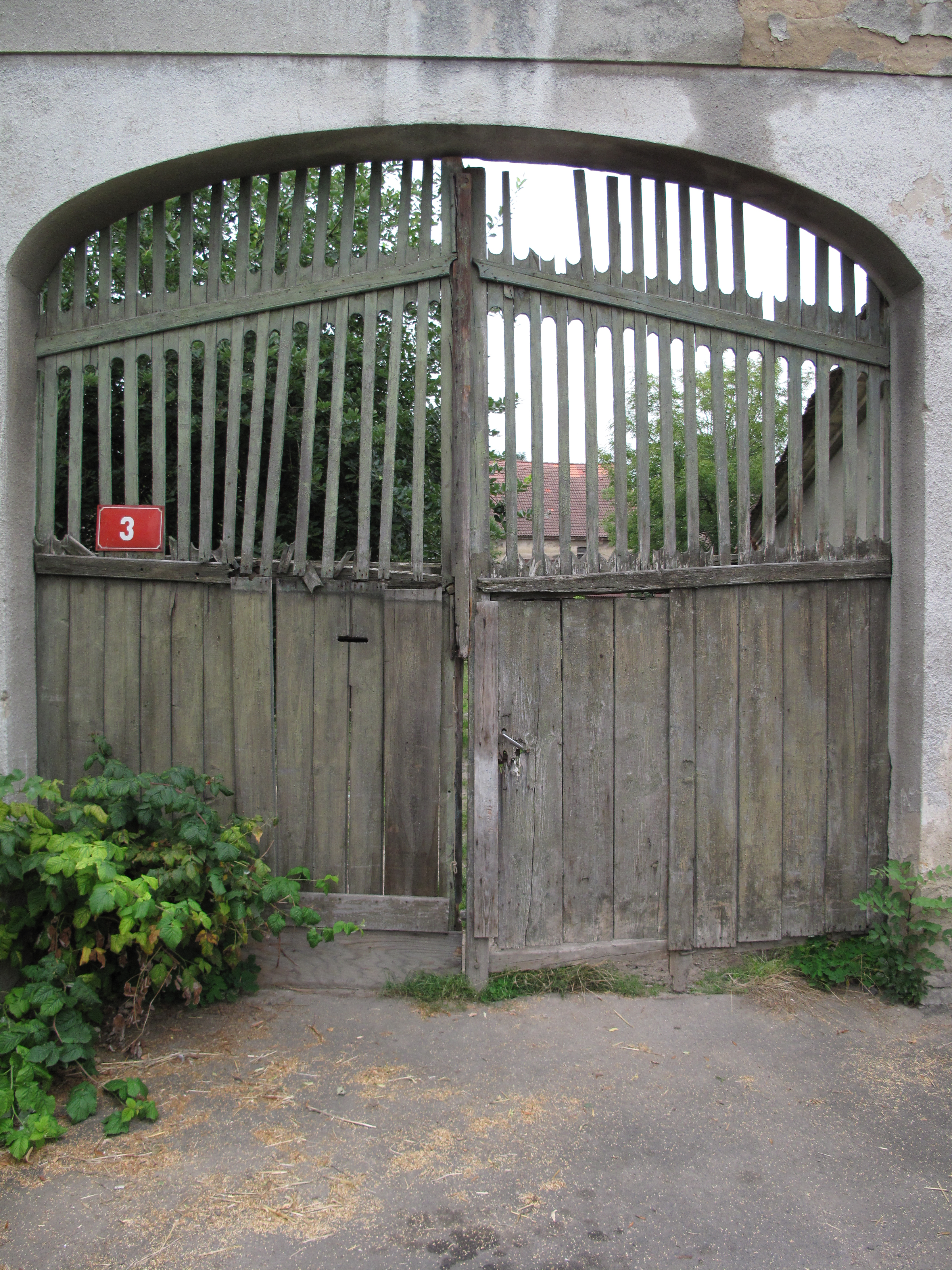 Wooden gate in Úpohlavy village, Litoměřice District, Czech Republic.